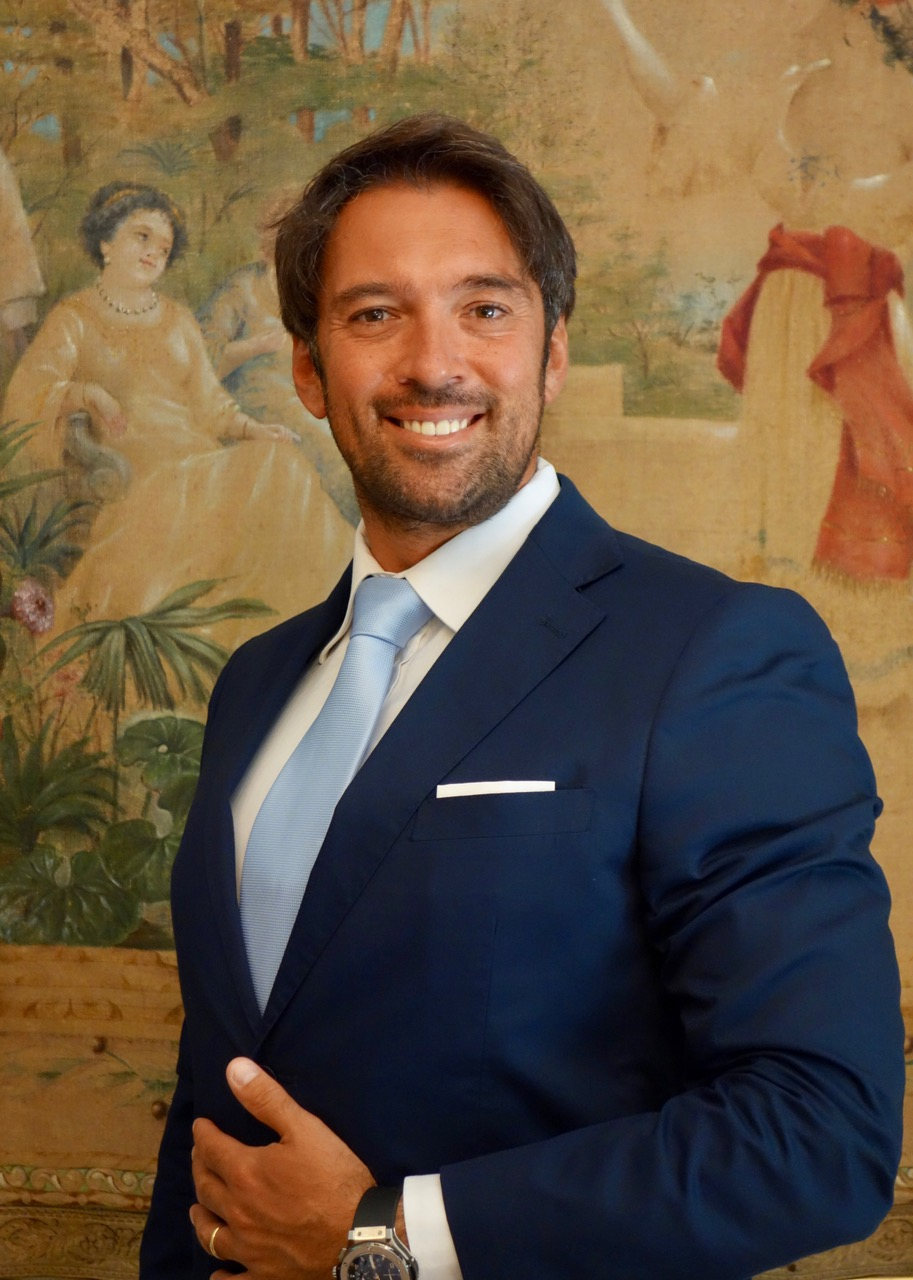 Kiril K. Maritchkov